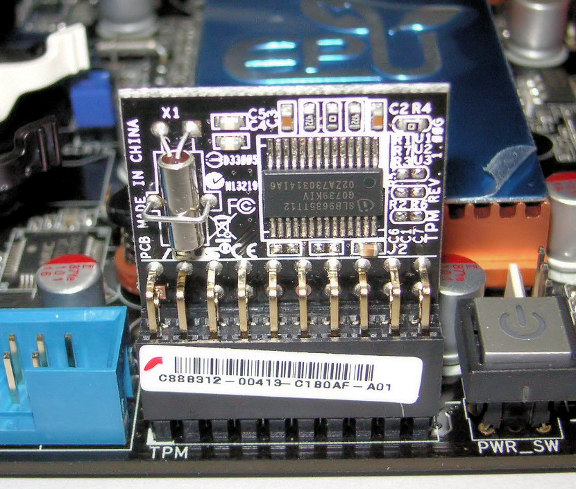 Trusted Platform Module on Asus motherboard P5Q PREMIUM